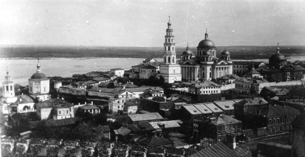 Kazanskiy Bogoroditskiy Monastery built on the spot where miraculous icon of Our Lady of Kazan was discovered